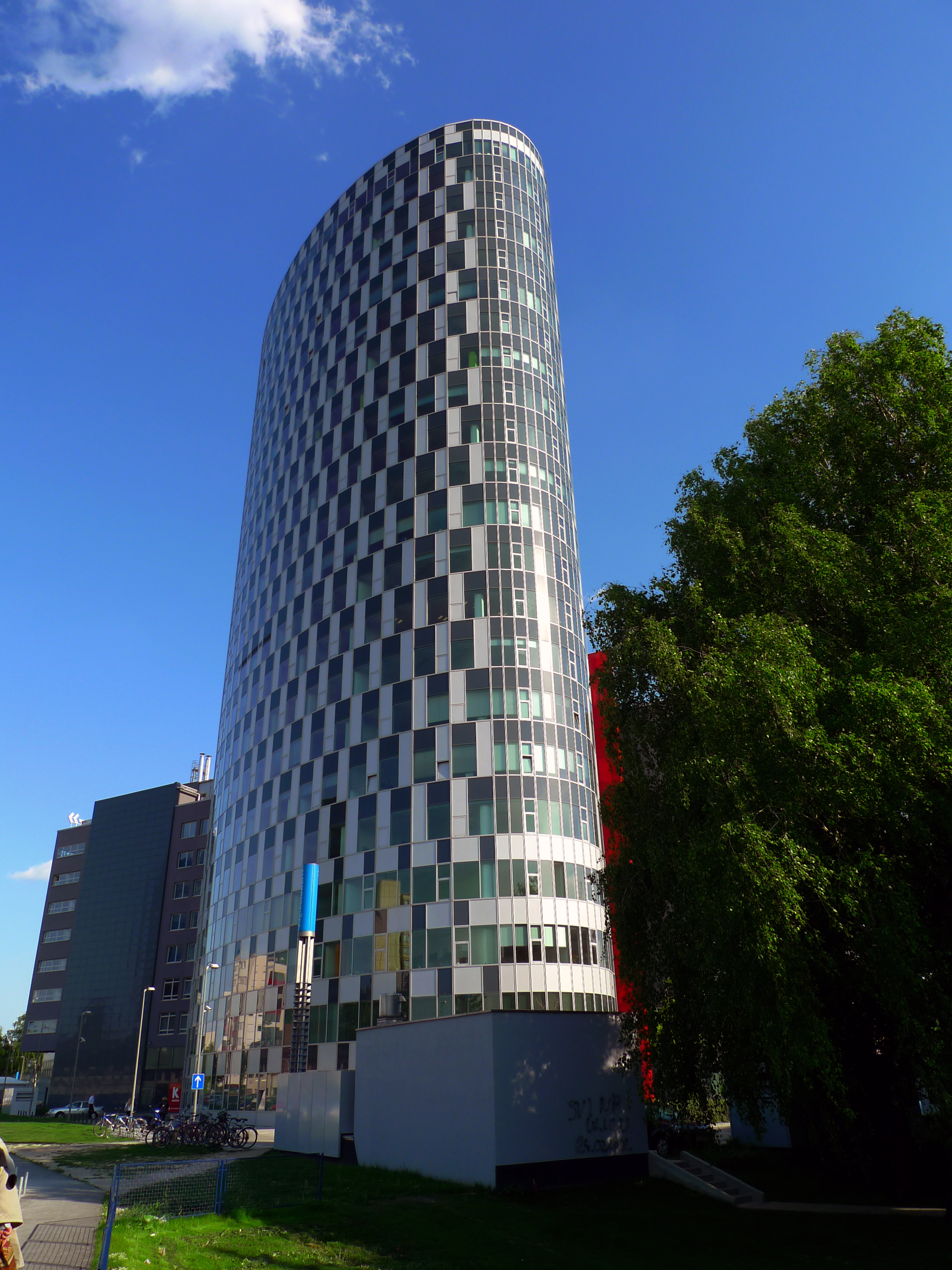 Zagrebtower.